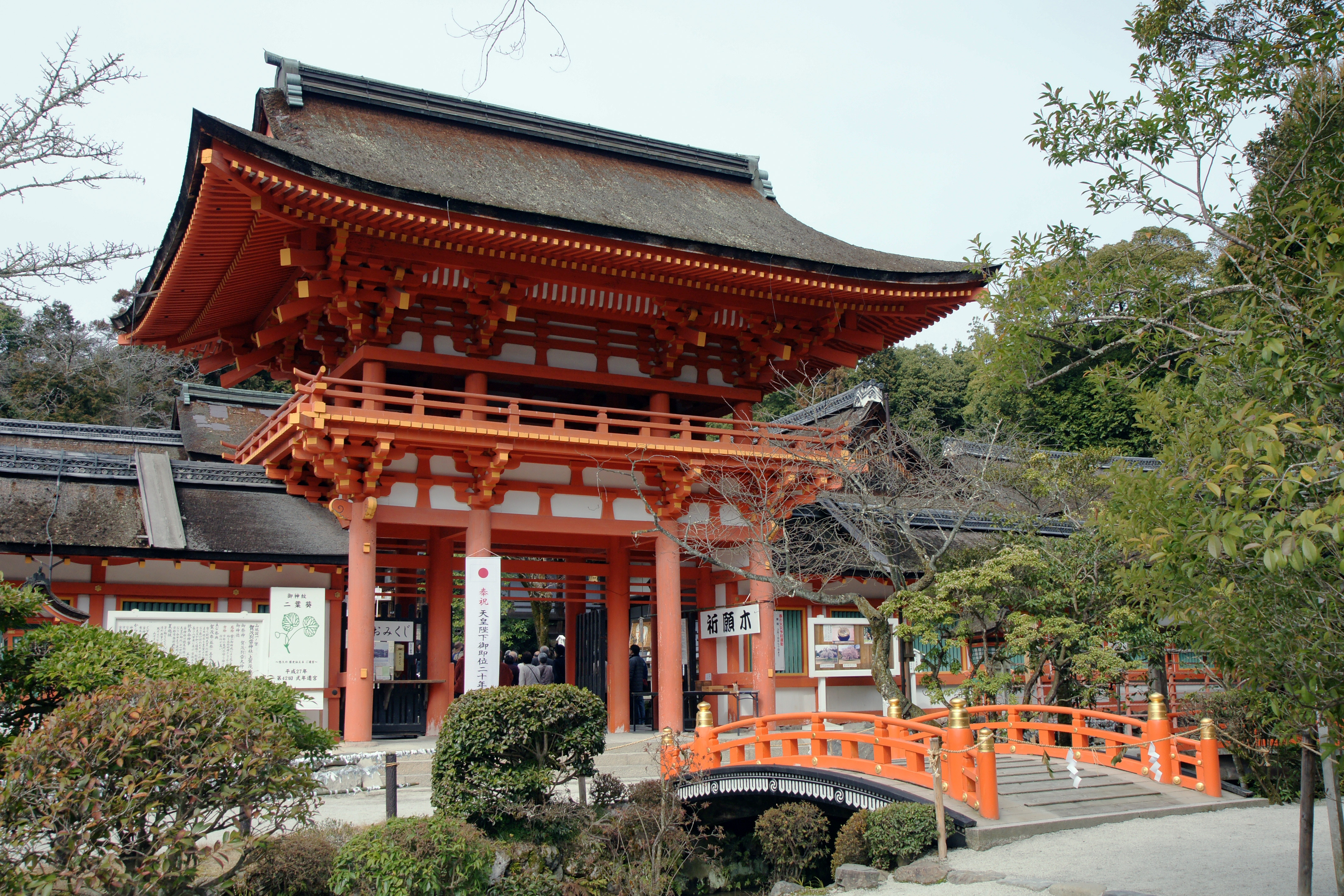 Kamowakeikazuchi-jinja (Kamigamo-jinja) in Kita-ku, Kyoto, Kyoto Prefecture, Japan